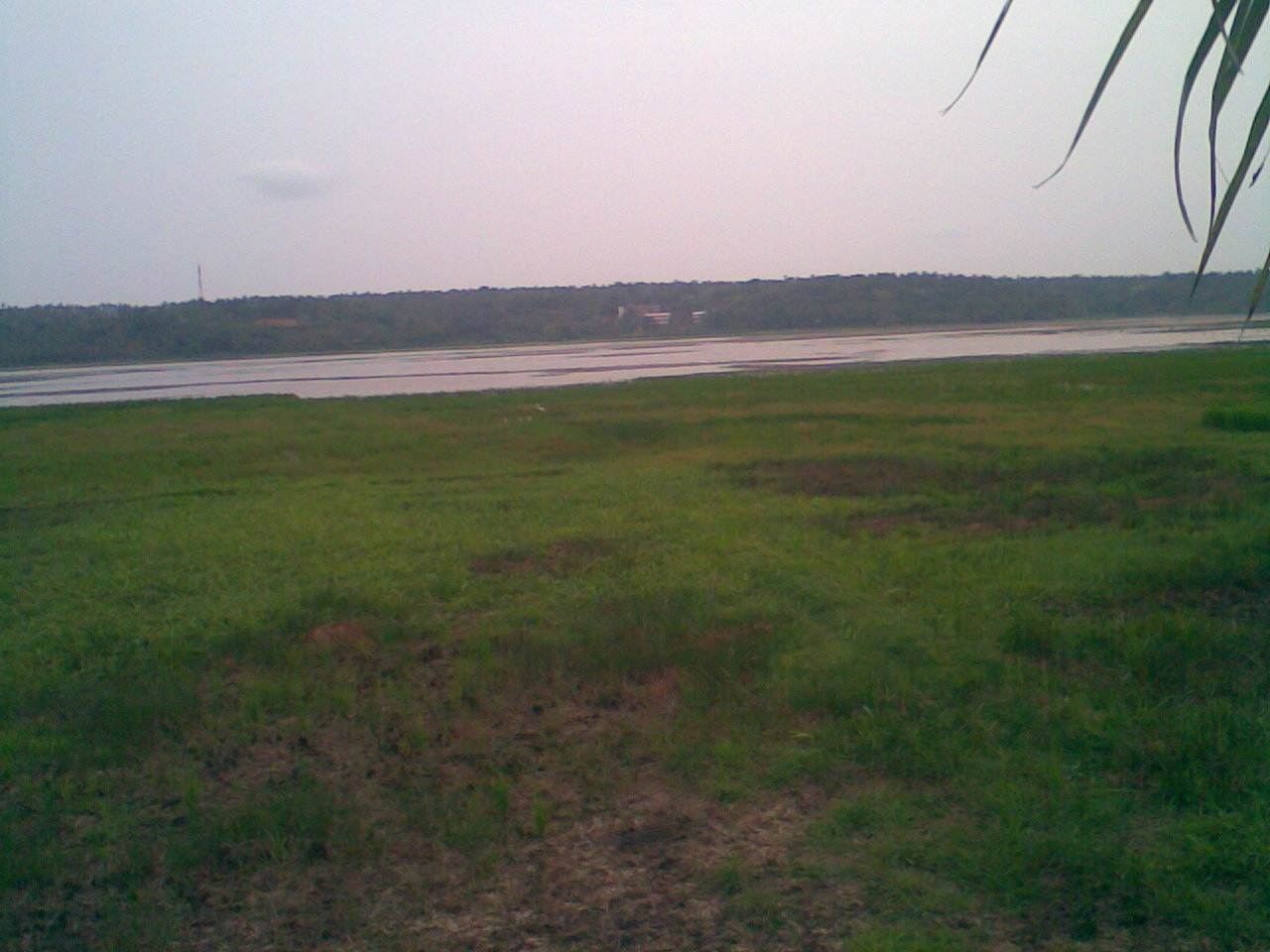 Polachira, wetland near Chathannoor in Kollam District of Kerala, India.